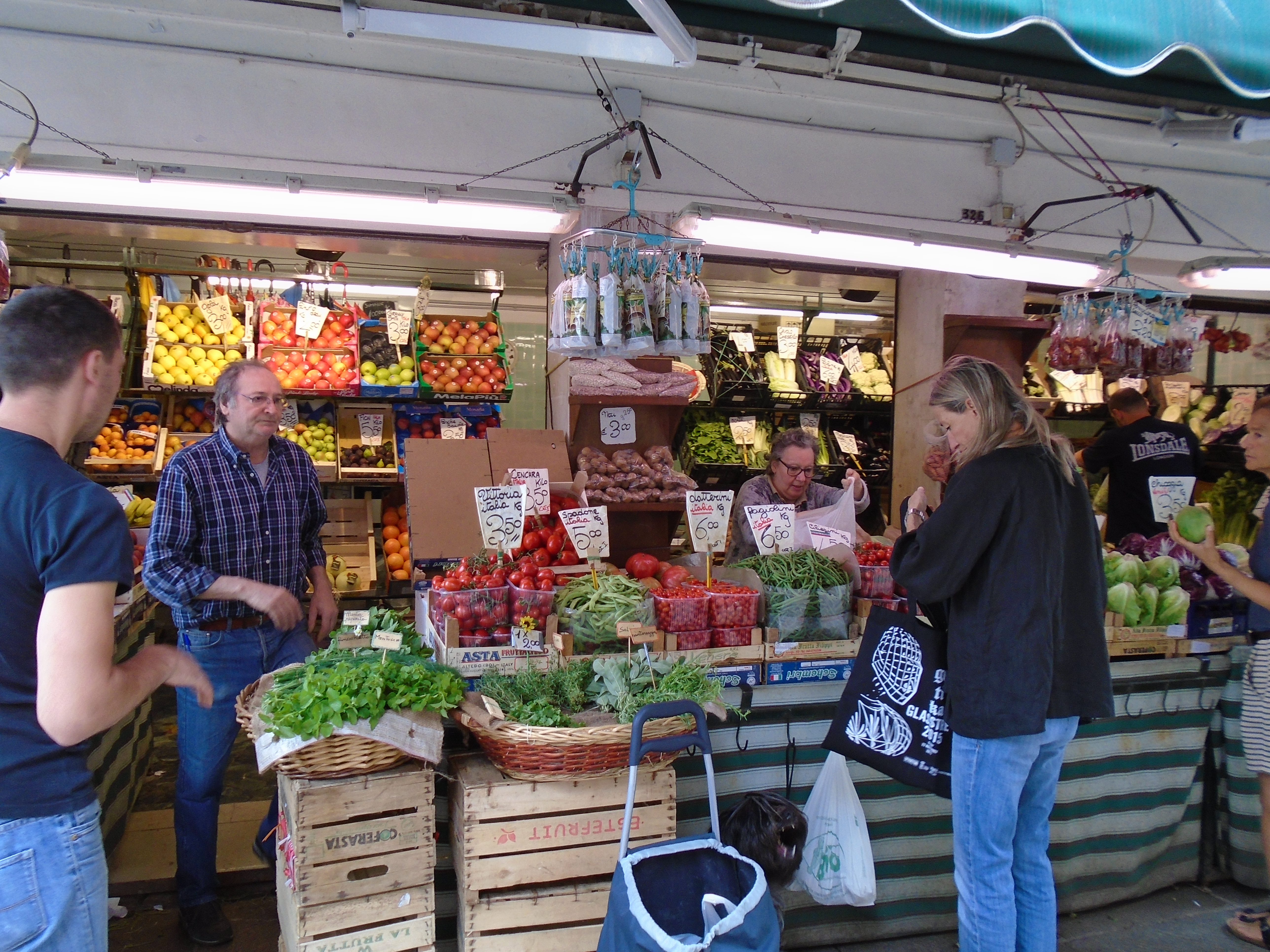 Vegetable on Rialto Bridge, Julay 2016.